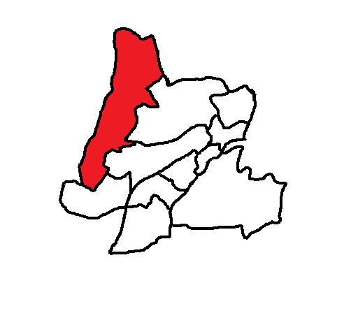 Map based on work by Earl Andrew, from maps used in 2007 elections Map based on work by Earl Andrew, from maps used in 2007 elections